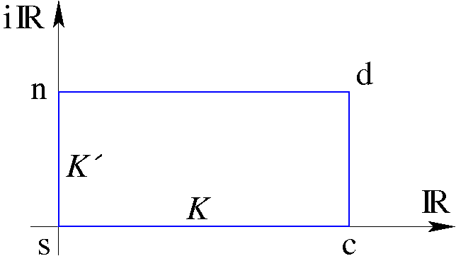 Sketch to show the auxiliary rectangle to abstractly define the 12 Jacobi elliptic functions